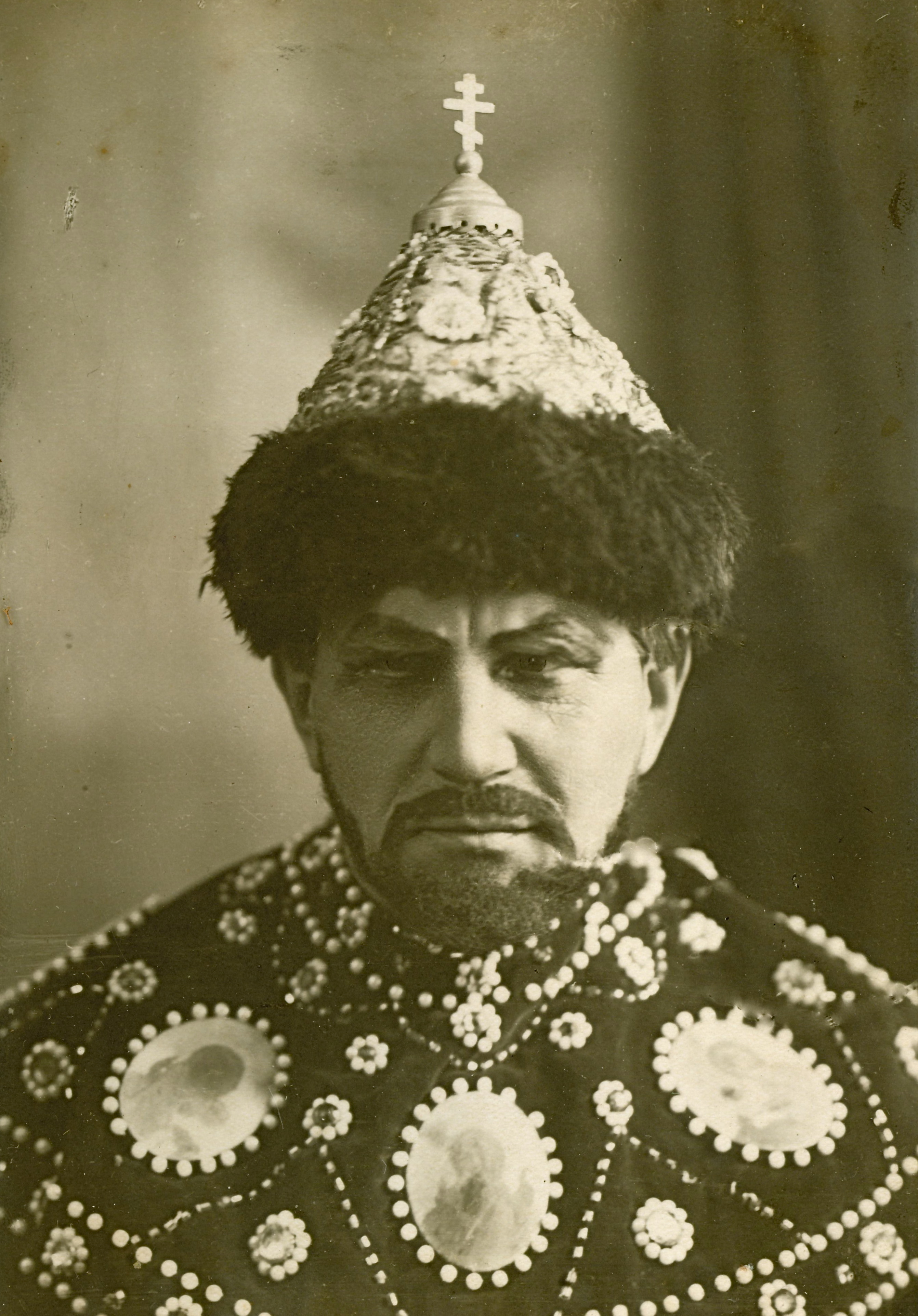 Michael Shuisky (1883–1953), Russian baritone, as Godunov in Mussorgsky's opera Boris Godunov